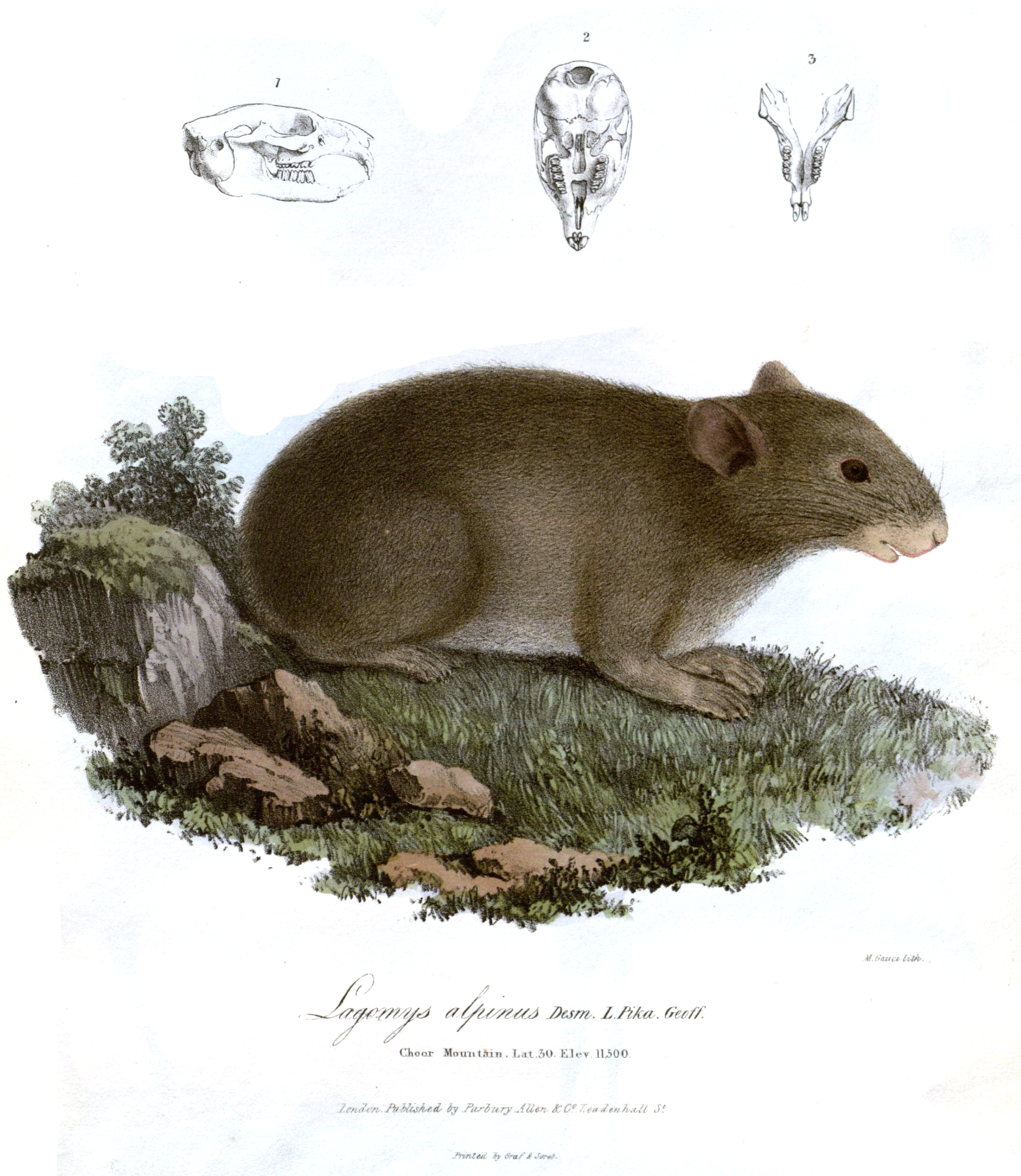 Alpine pika (Ochotona roylei)